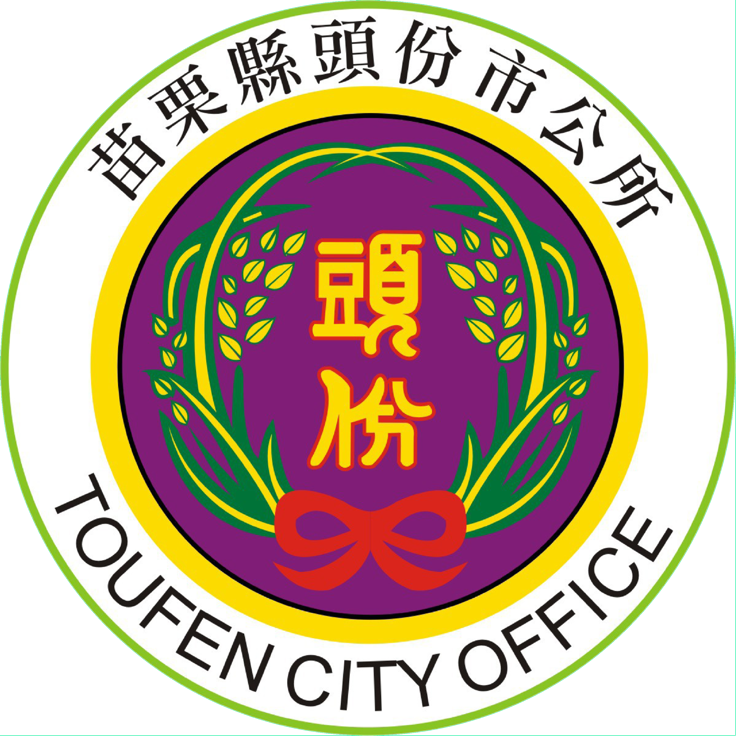 Seal of Toufen City Office, Miaoli County.